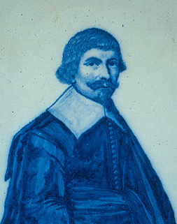 Plaque with a portrait of Robert Junius, Dutch missionary to Formosa.